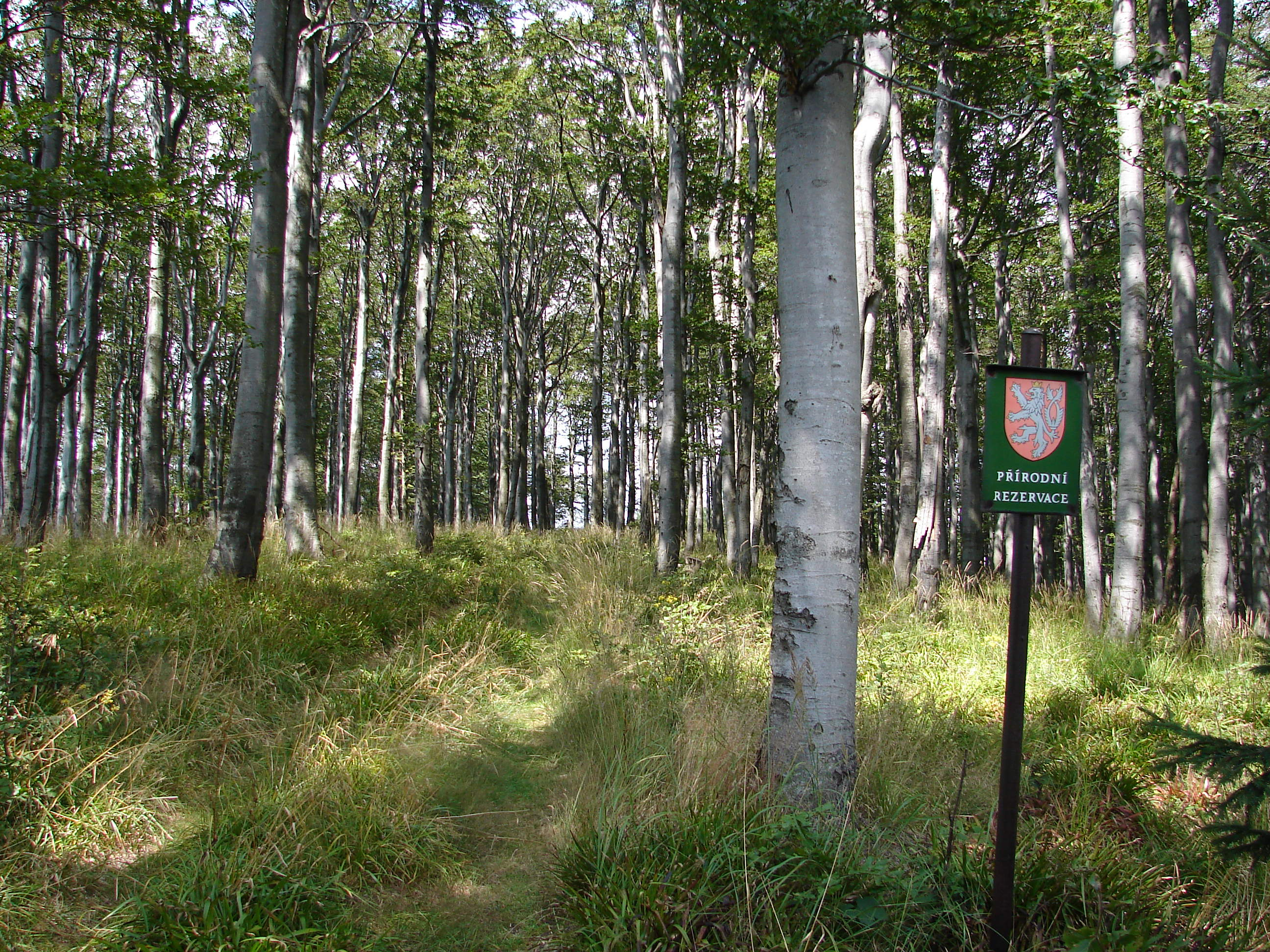 Nature reserve Noříčí in the Moravian-Silesian Beskids (Nový Jičín District)